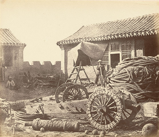 An Pehtang fort was abondoned by the Chinese army. Printed in 1860. 中文（台灣）: 被棄置的北塘砲台。攝於1860年。